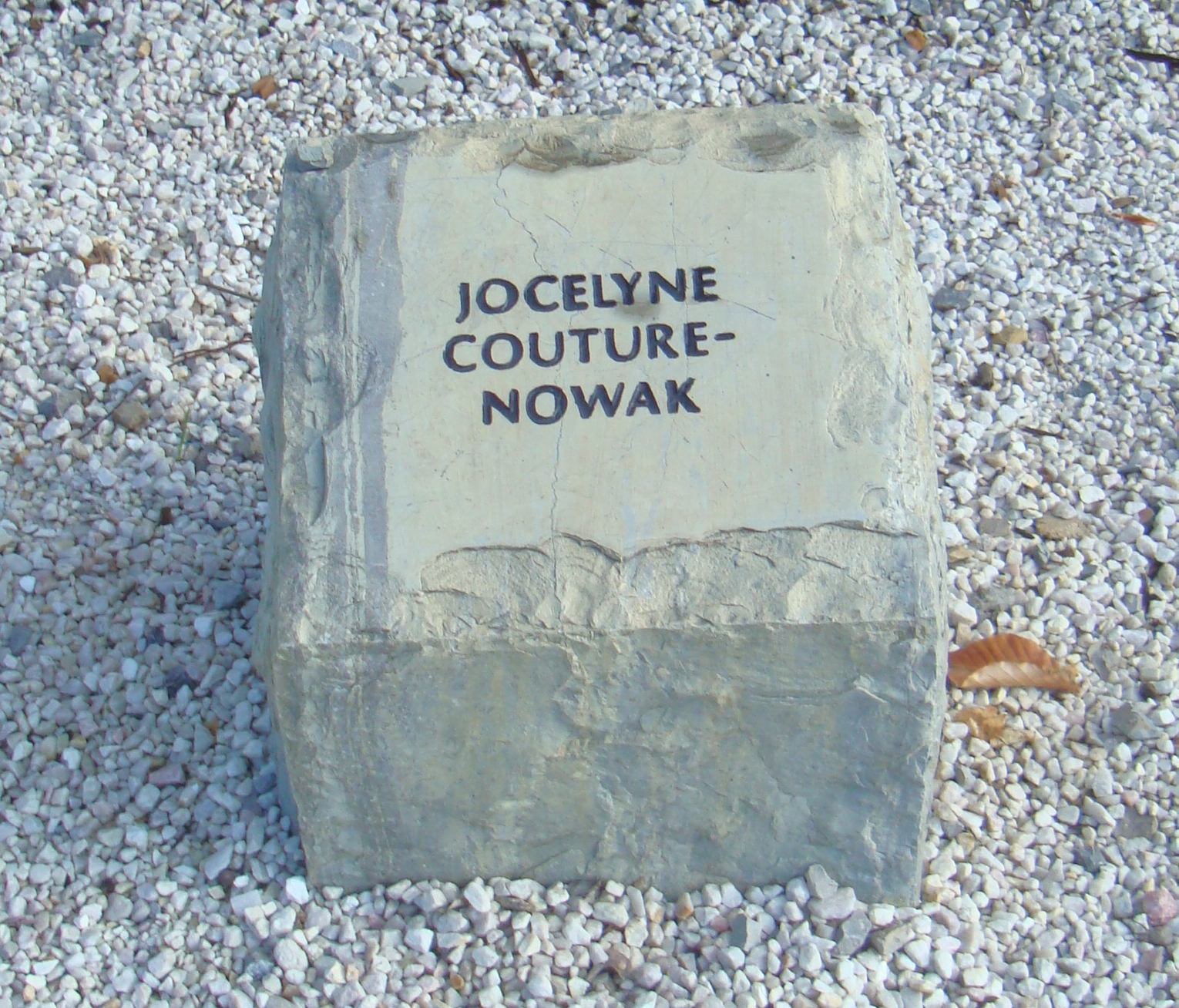 Jocelyne_Couture-Nowak's marker at the Virginia Tech massacre memorial